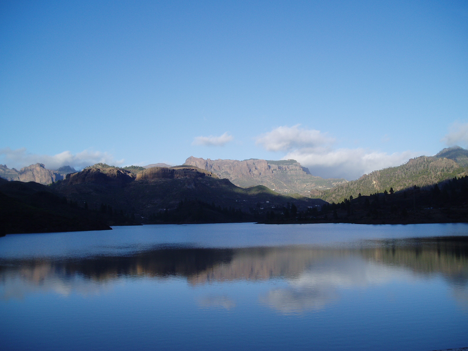 Image of Presa de Chira (Chira Dam) in Gran Canaria (Canary Islands, Spain).